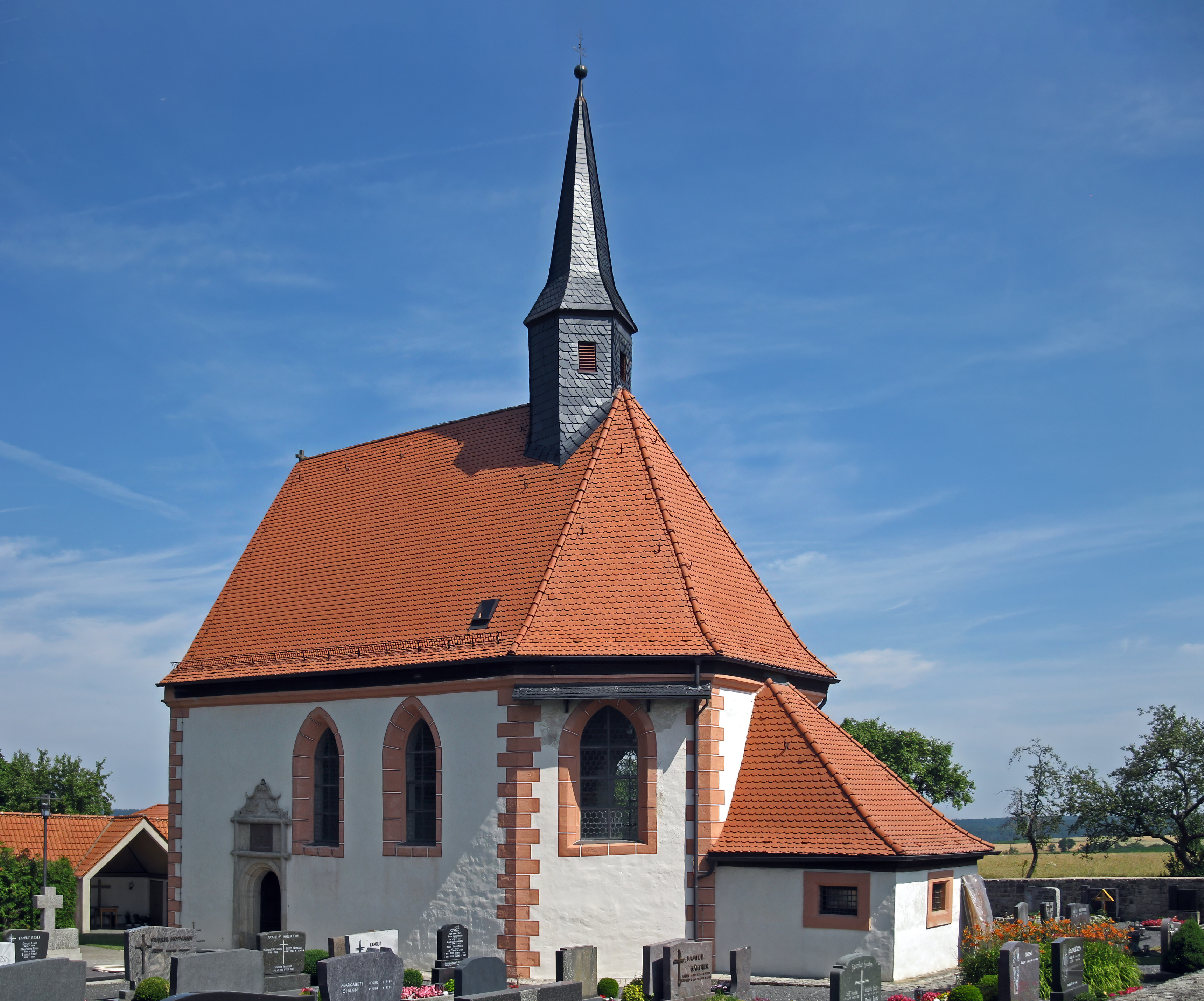 Catholic chapel St. Rochus and Sebastian. Roofed hall with gabled roof and ridge turret. Post-gothic, 1616 with older core, parts from 18th century.This is a photograph of an architectural monument.